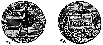 Token money from Sweden